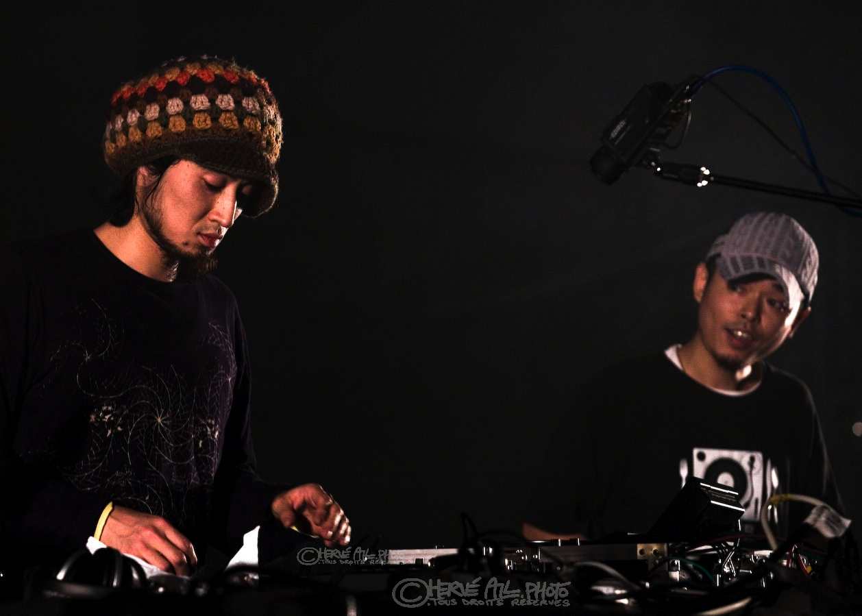 The duo Hifana playing a music set at the 2008 Transmusicales festival in Rennes.